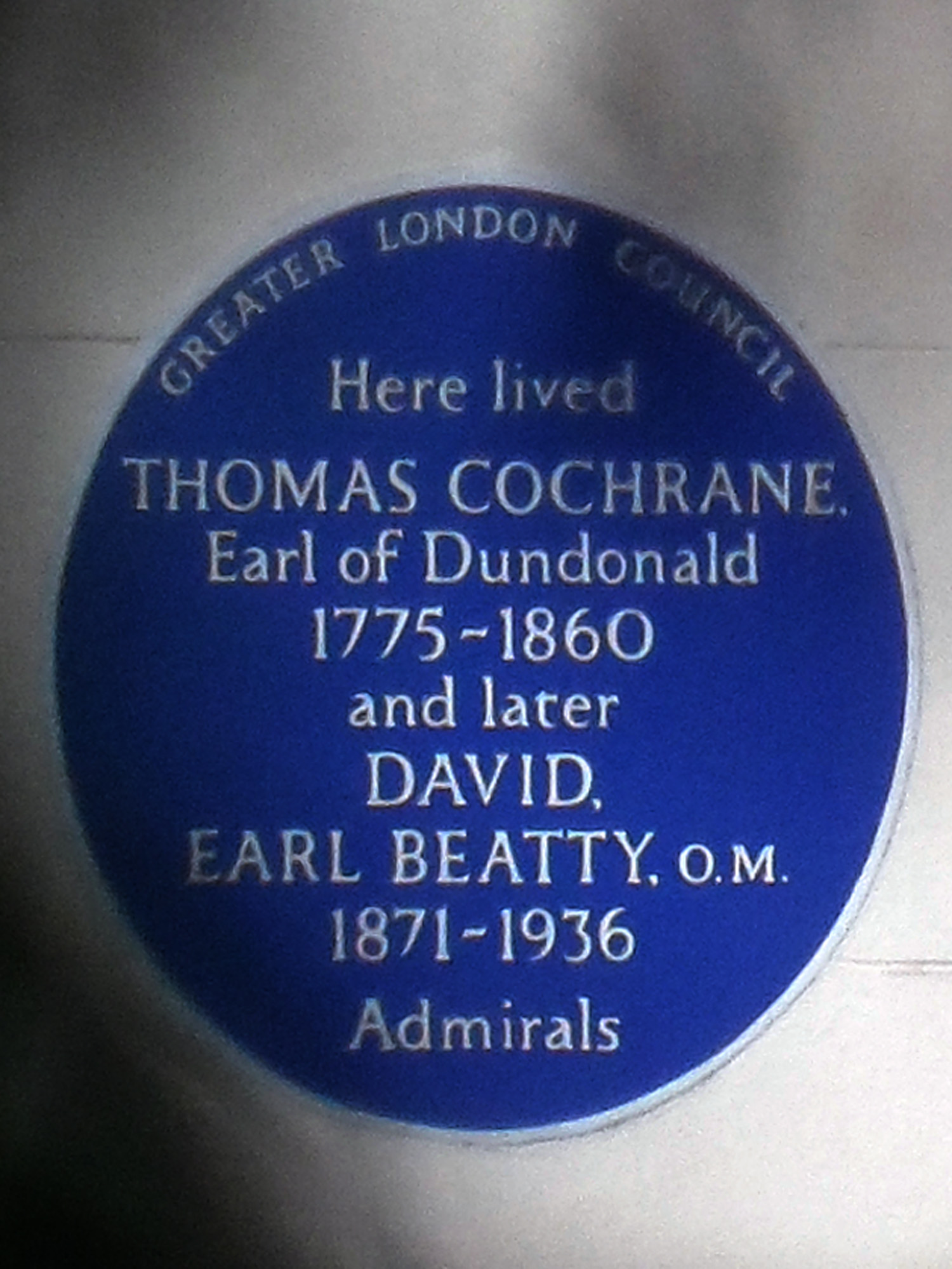 Blue plaque erected in 1974 by Greater London Council at Hanover Lodge, Outer Circle, Regent's Park, London NW1 4RJ, City of Westminster